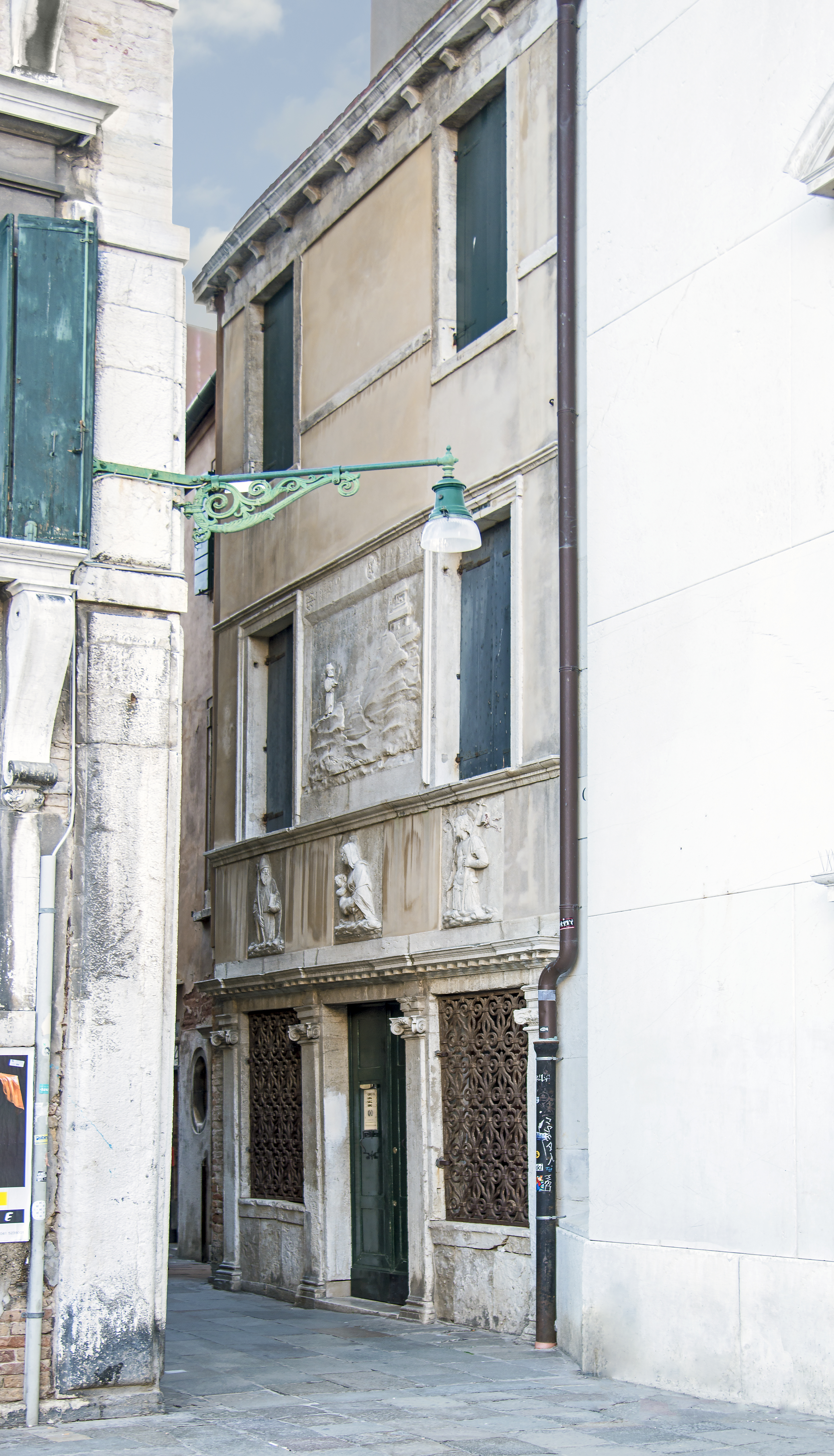 Scuola degli Albanesi in Venice. Facade between Palace Bellavite and Church San Maurizio.